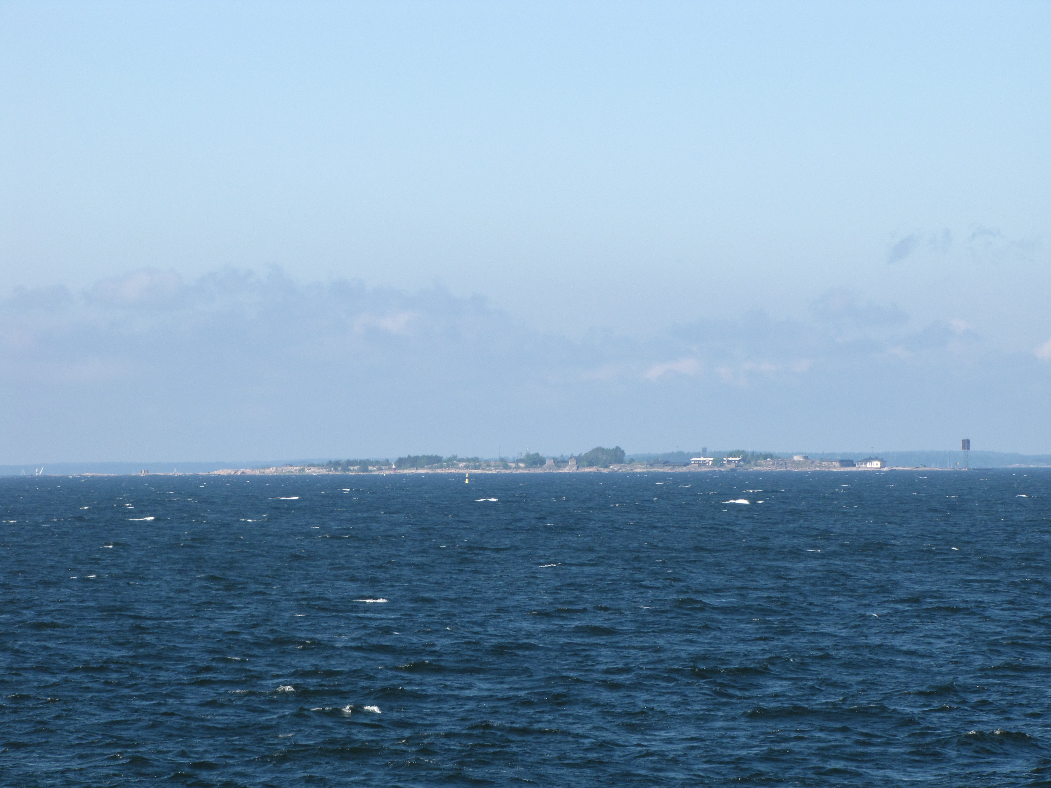 Katajaluoto island seen from Kuivasaari.